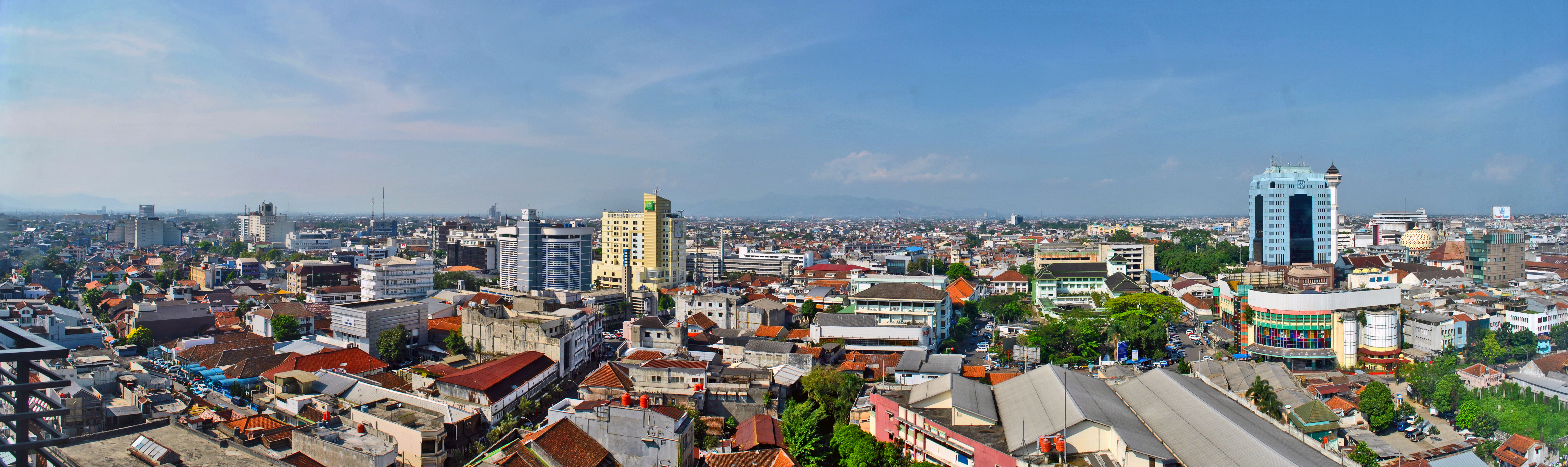 Panoramic view of central and southern Bandung from a hotel. Most buildings visible at the photo are situated between Jalan Asia-Afrika and Braga.